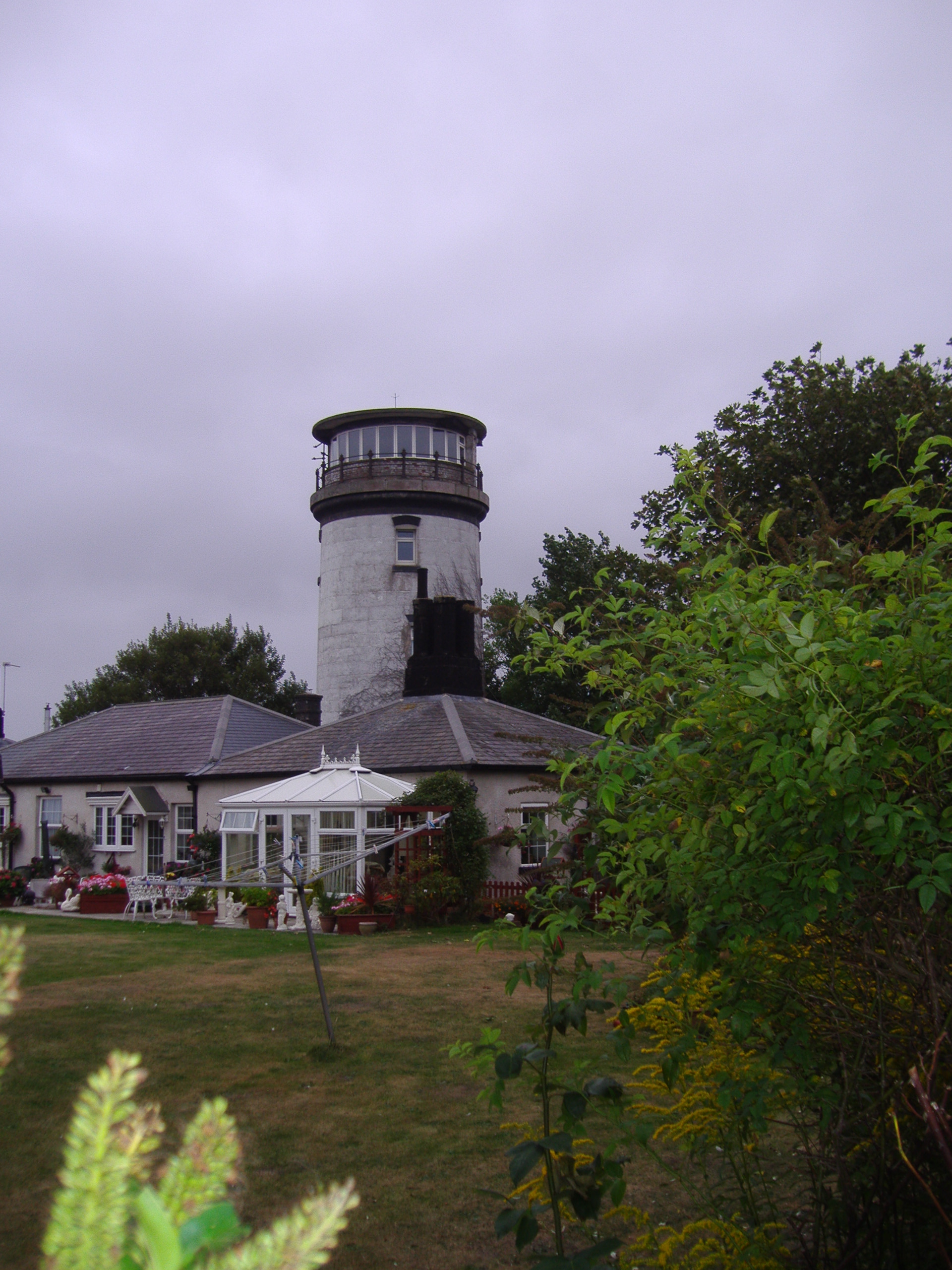 The old Lighthouse in Winterton on Sea in the english county of Norfolk